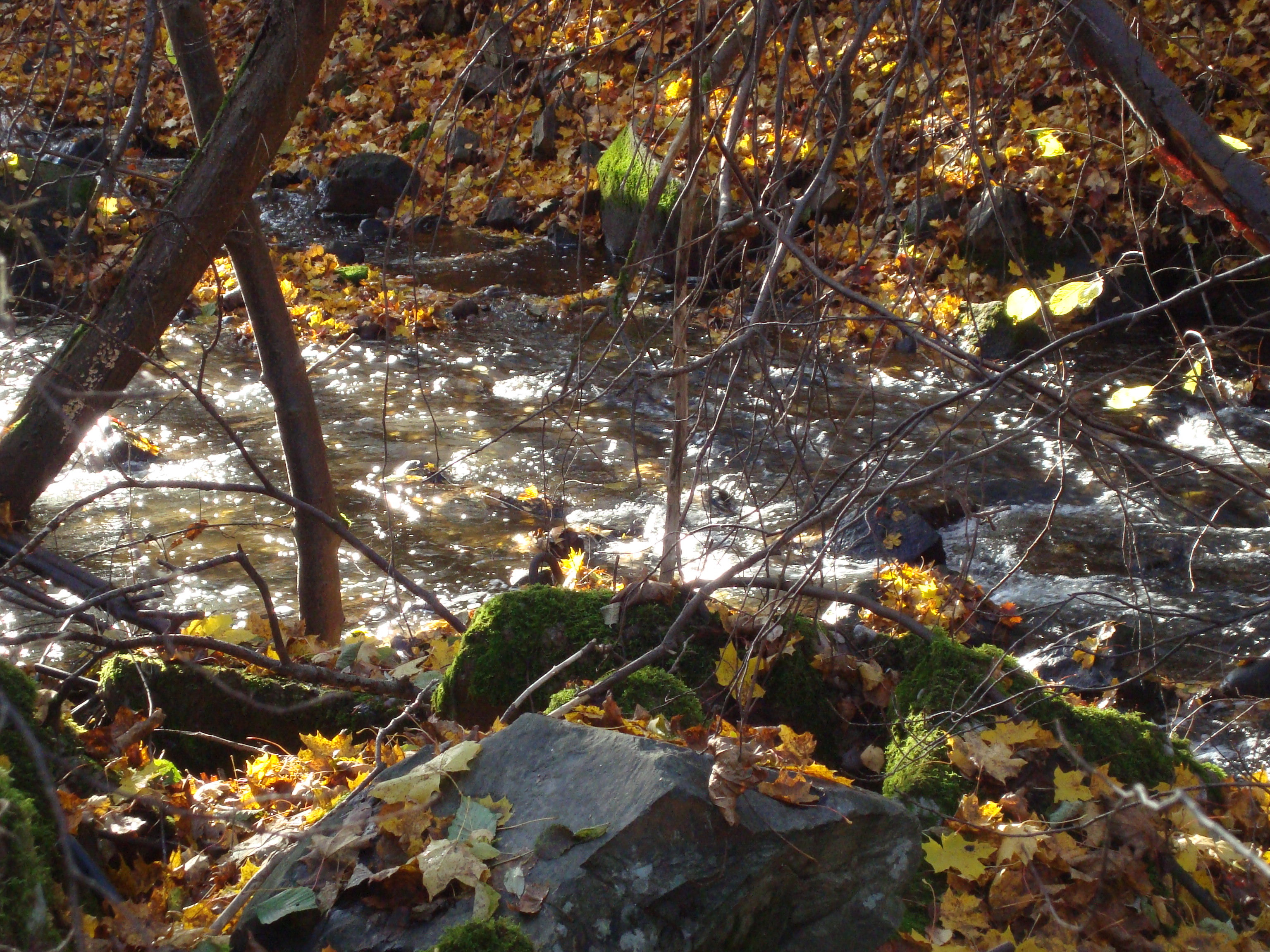 Lustån, Turbo ('luck settlement'), Hedemora municipality, Sweden